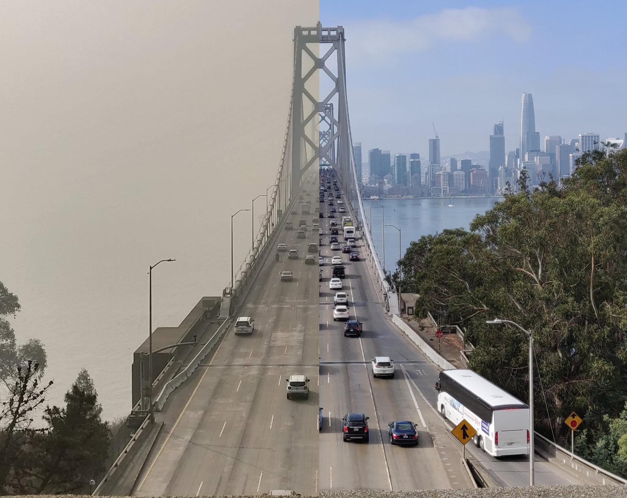 A comparison of the bay bridge in San Francisco California before the camp fire smoke and during. The shot on the left was taken November 16th and the one on the right October 14th. Both photos were taken from the same position on treasure island using the same cellphone camera. No filter or effects were added to the images besides cropping and aligning.